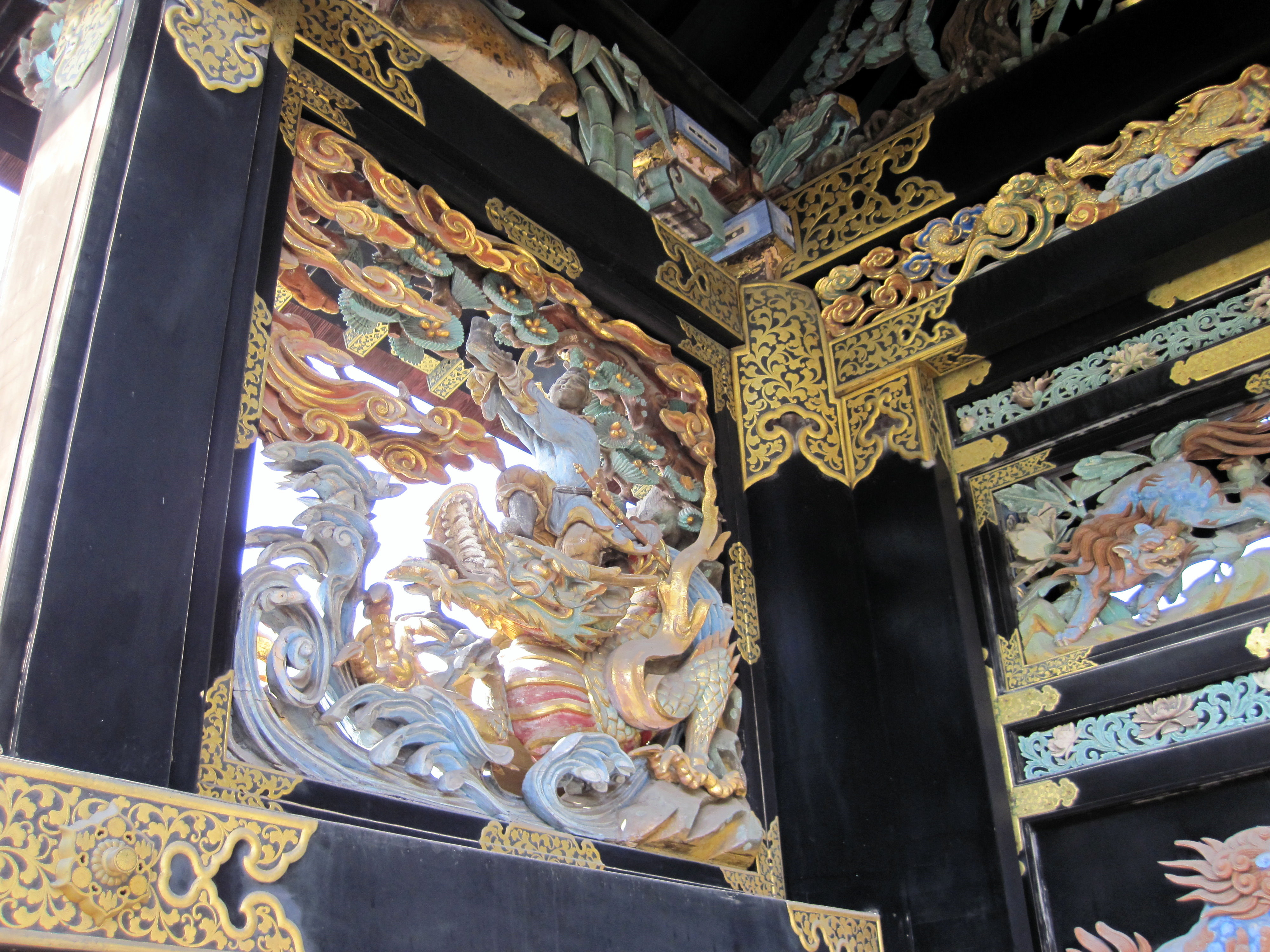 Hongan-ji National Treasure World heritage Kyoto 国宝・世界遺産 本願寺 京都